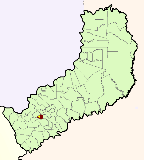 A map of Almafuerte's municipio in Misiones province, Argentina. The big point is Almafuerte town.